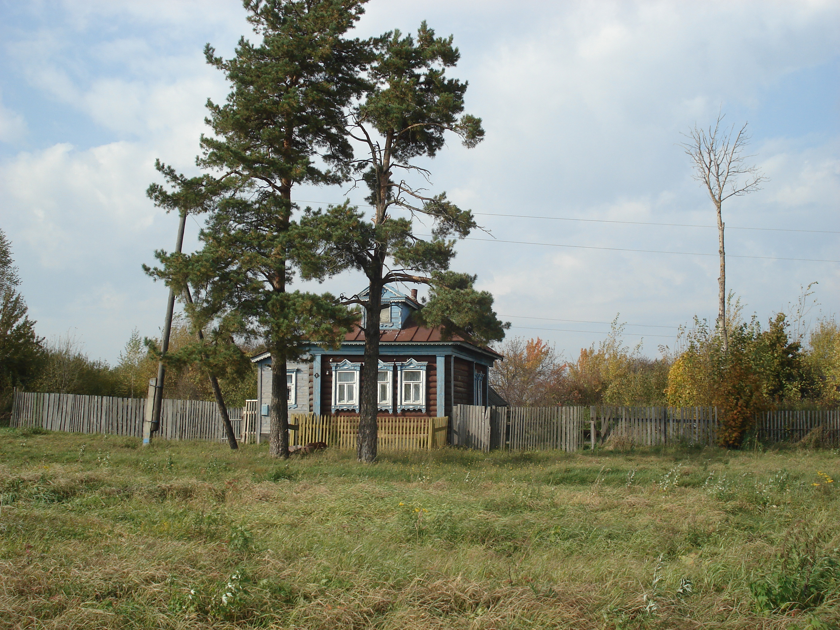 The Village of Efimevo. Nizhegorodskaya oblast. Russia